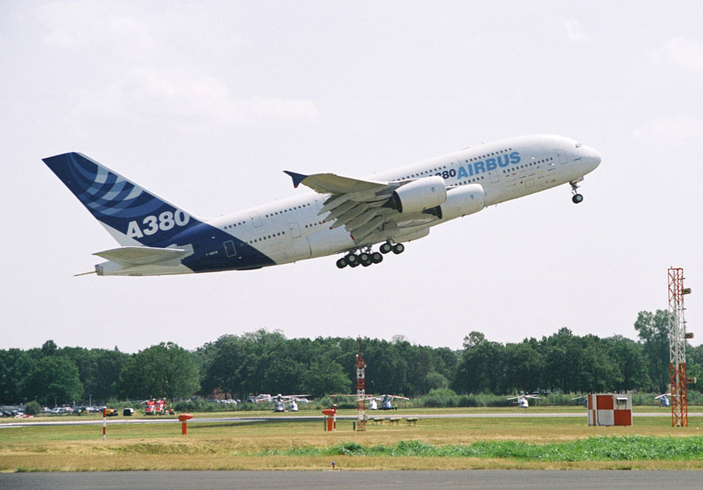 Take-off, Farnborough 2006